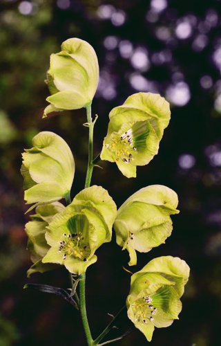 Aconitum koreanum